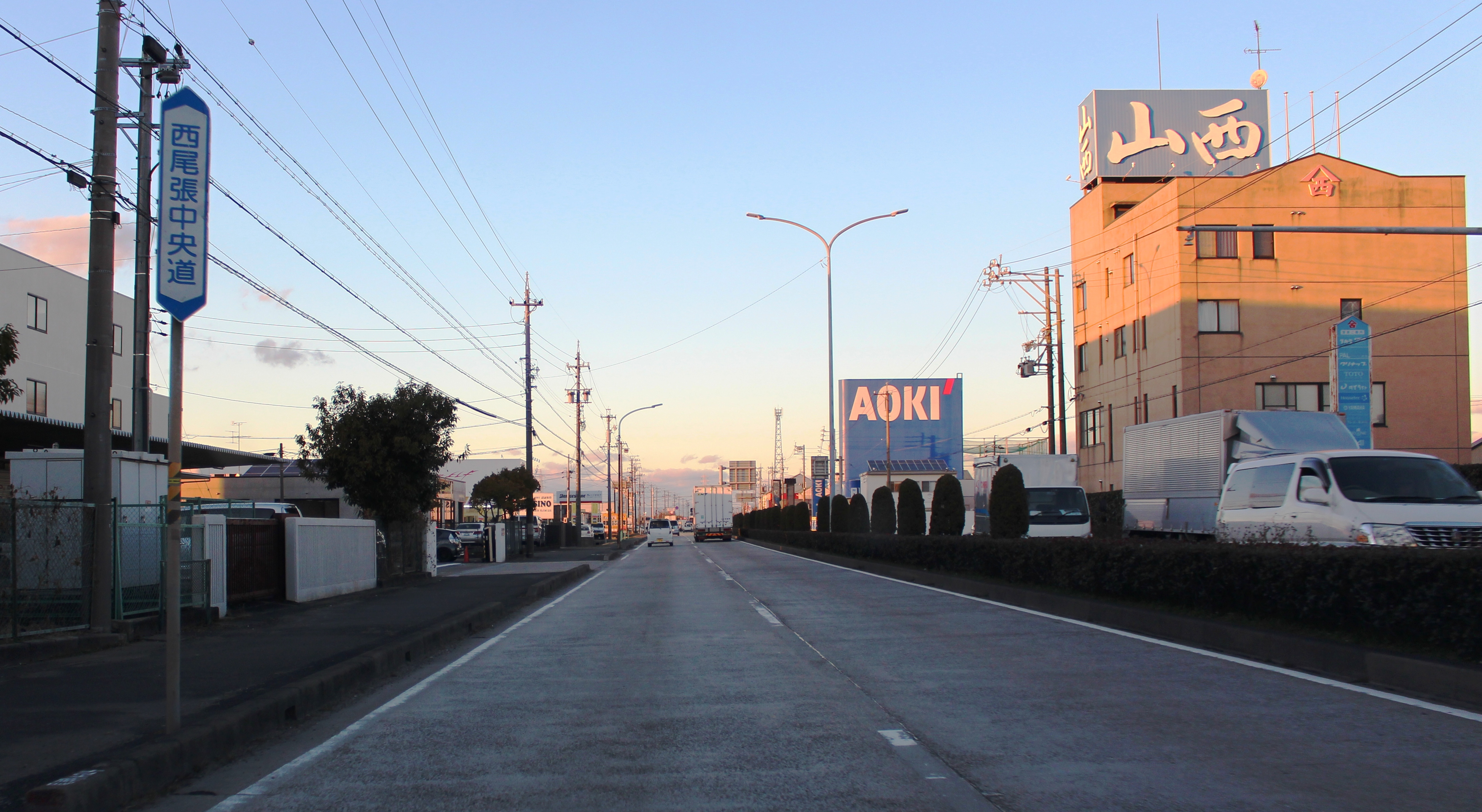 Aichi Prefectural Road Route 65 in Hiruma, Tsushima, Aichi prefecture, Japan.